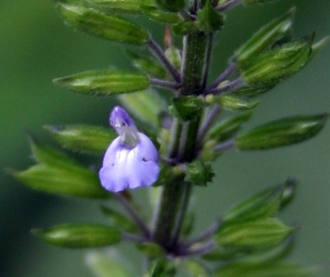 Flower of Salvia tiliifolia Vahl